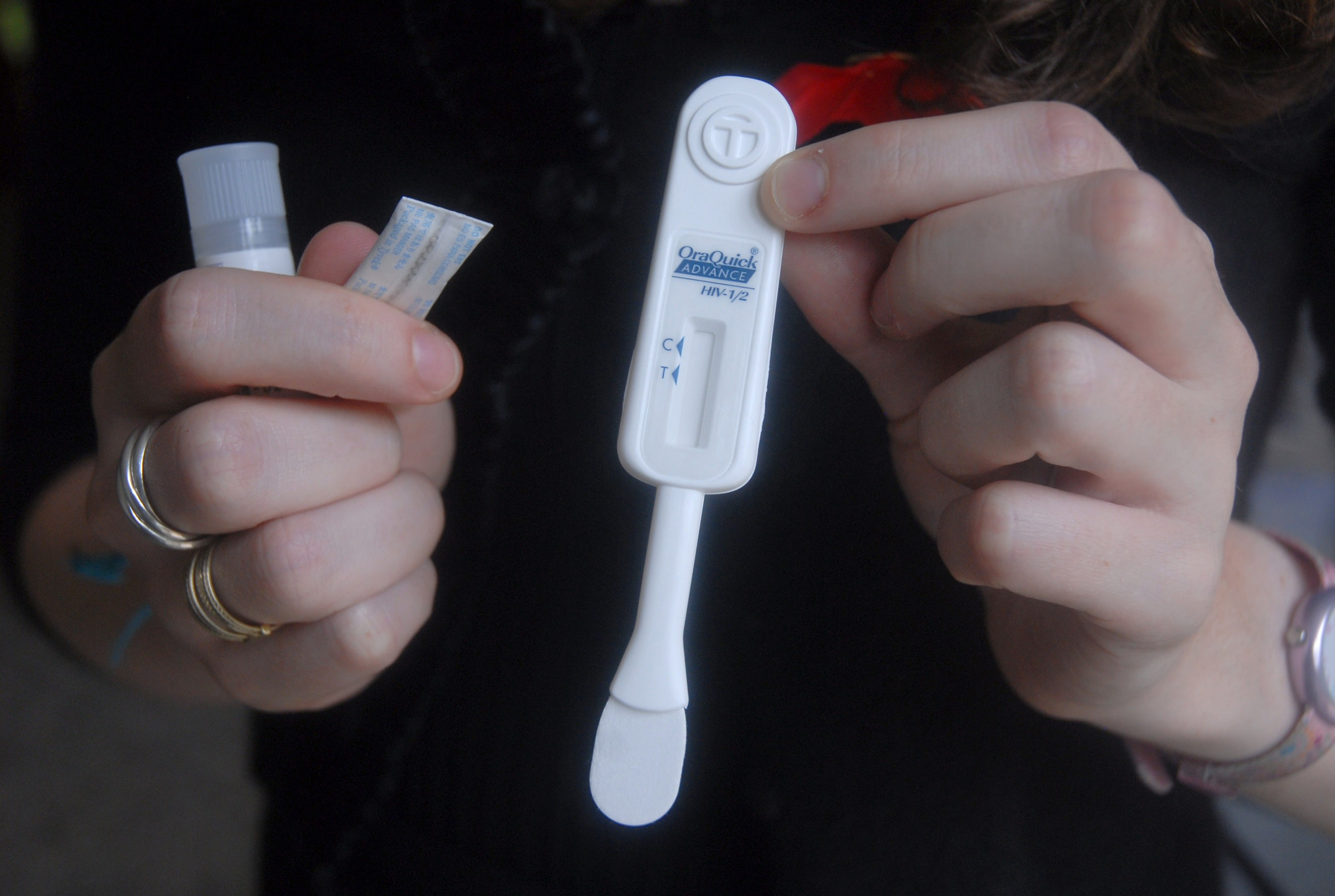 OraQuick HIV test